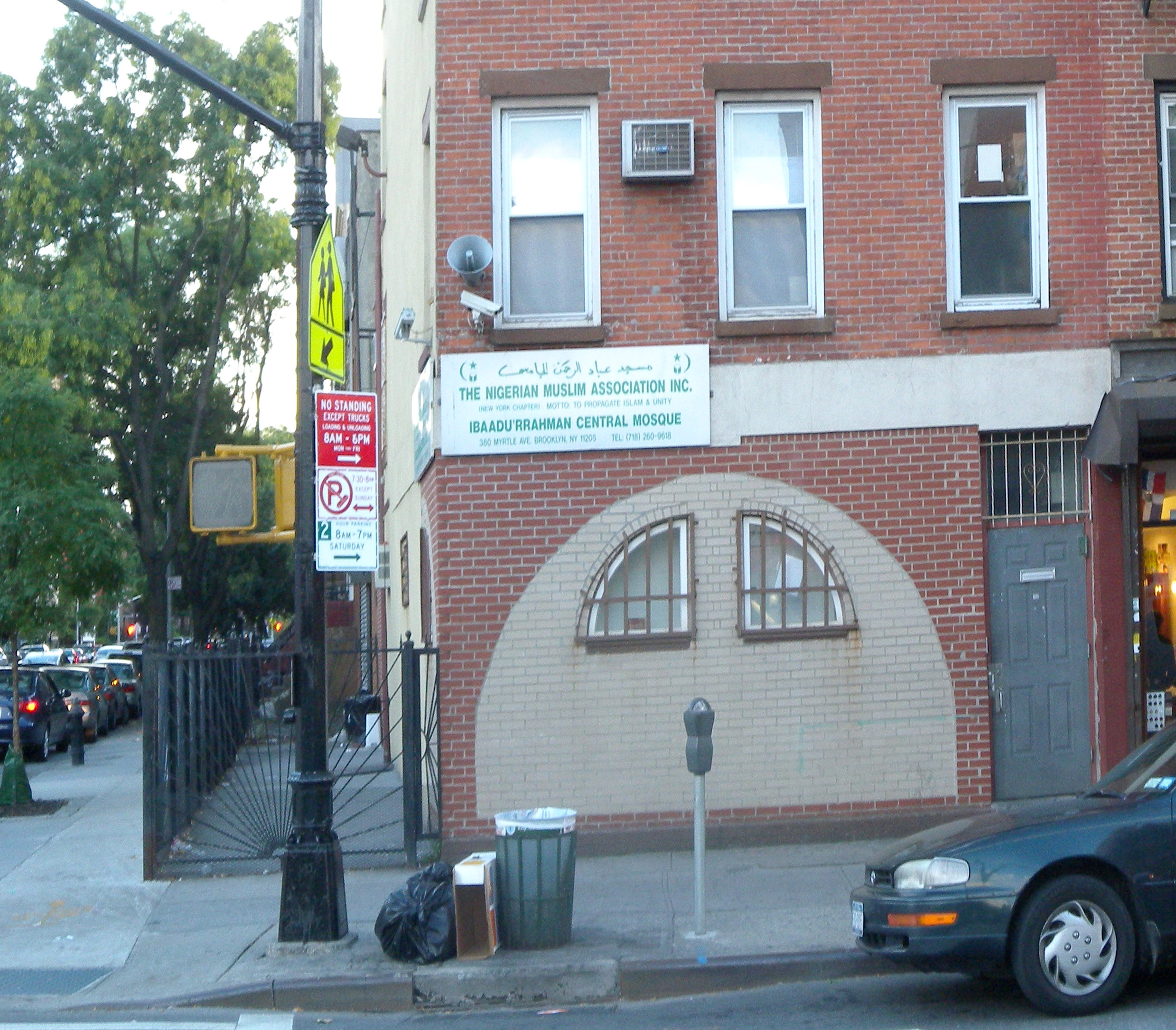 Looking south across Myrtle Avenue at Nigerian Muslim Association near dusk of a sunny day. ZIP 11205.